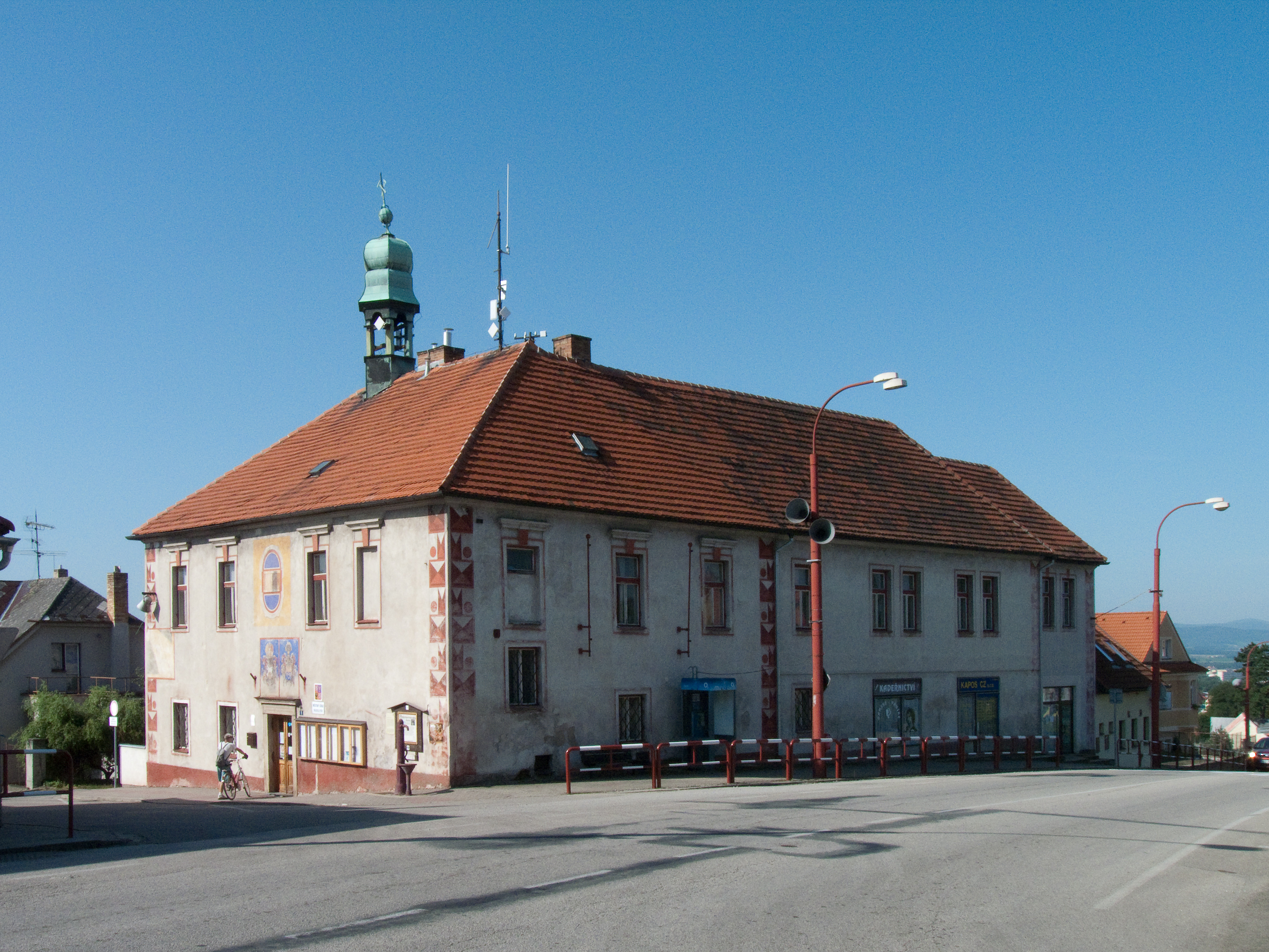 Municipal building in Rudolfov, České Budějovice district, Czech Republic